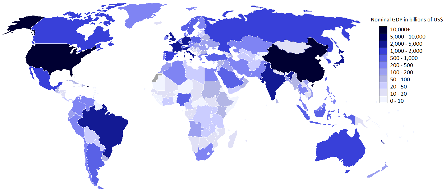 Map of countries by GDP (nominal) in US$ by IMF